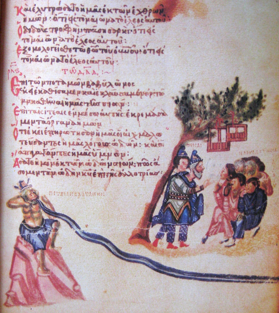 Psalm By the rivers of Babylon from Chludov Psalter